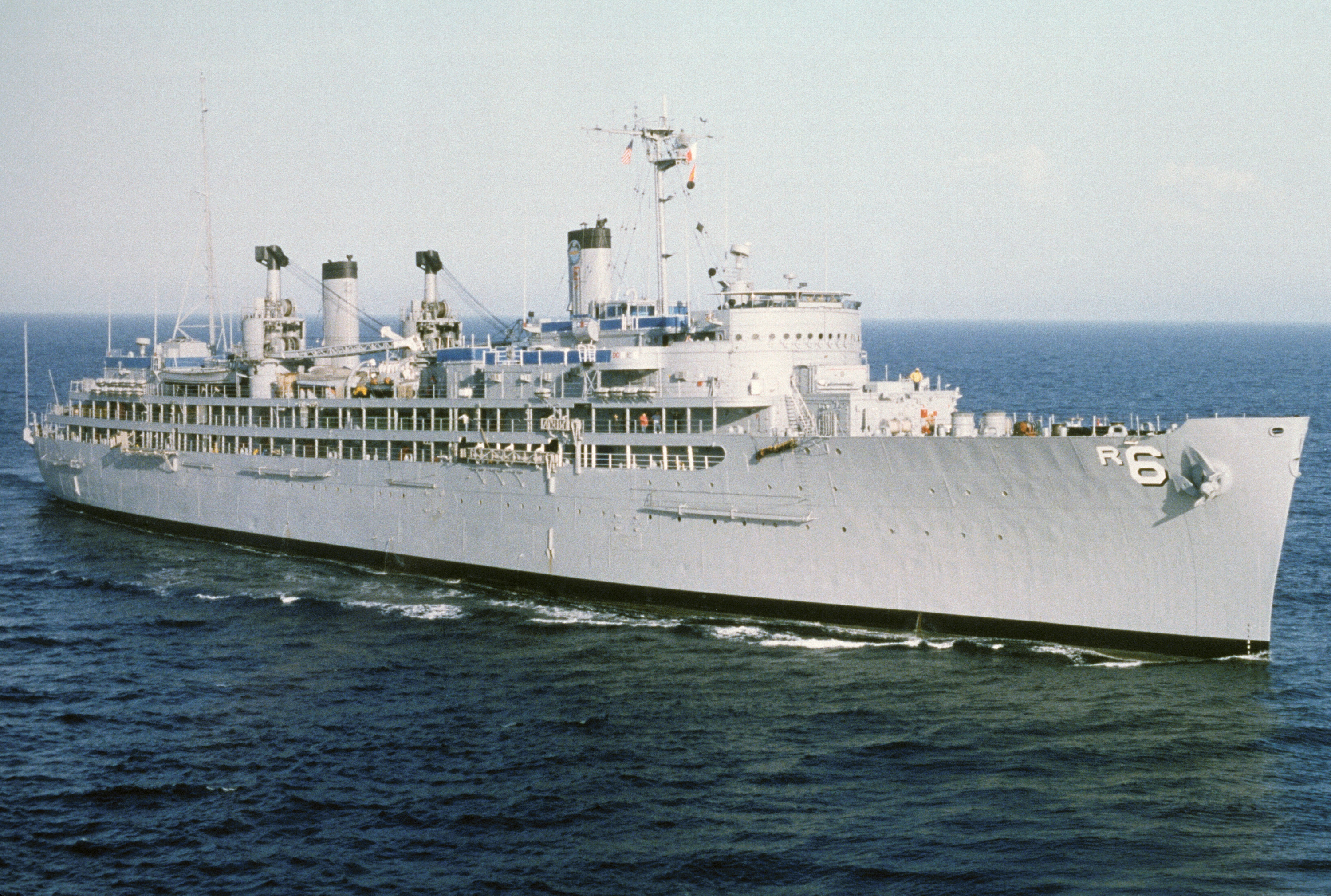 The U.S. Navy repair ship USS Ajax (AR-6) off San Diego, California (USA).